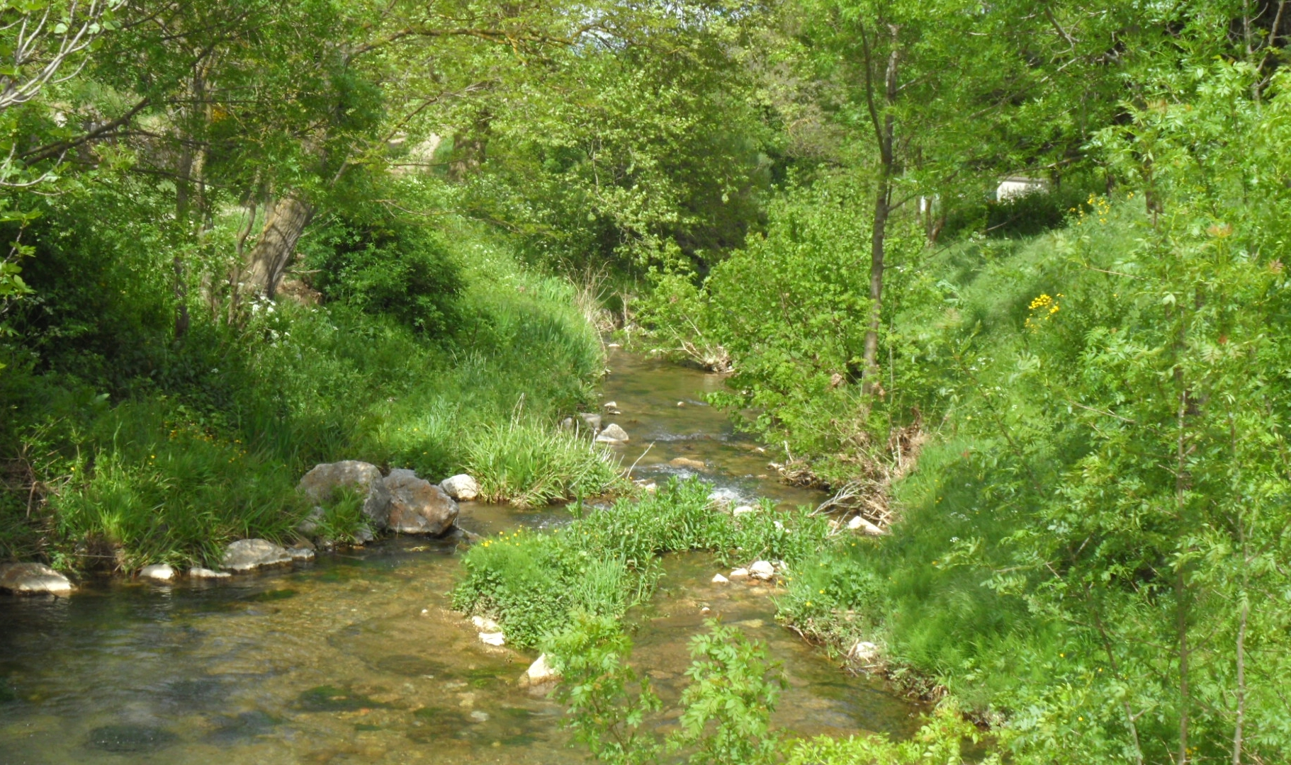 Sou de Laroque in Laroque-de-Fa, Aude, France